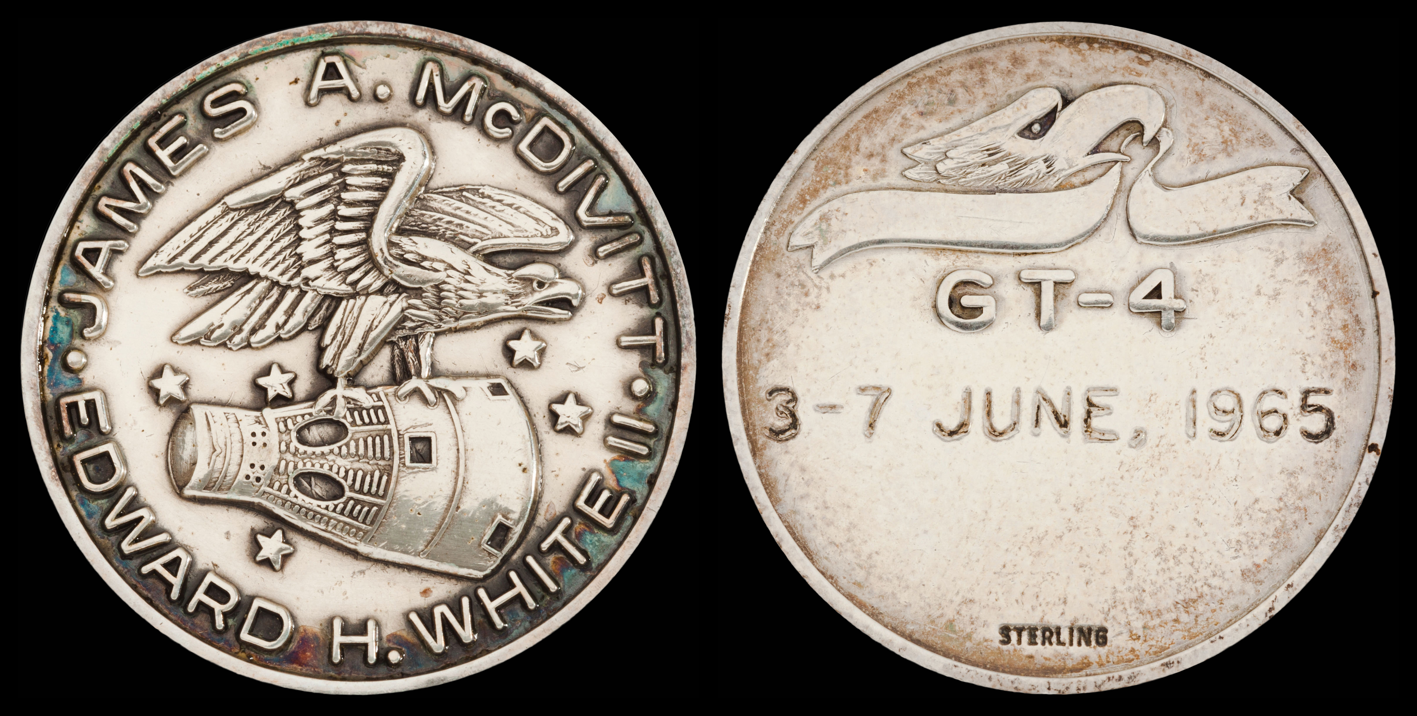 Gemini 4 Flown Silver Fliteline Medallion(6095-40054)